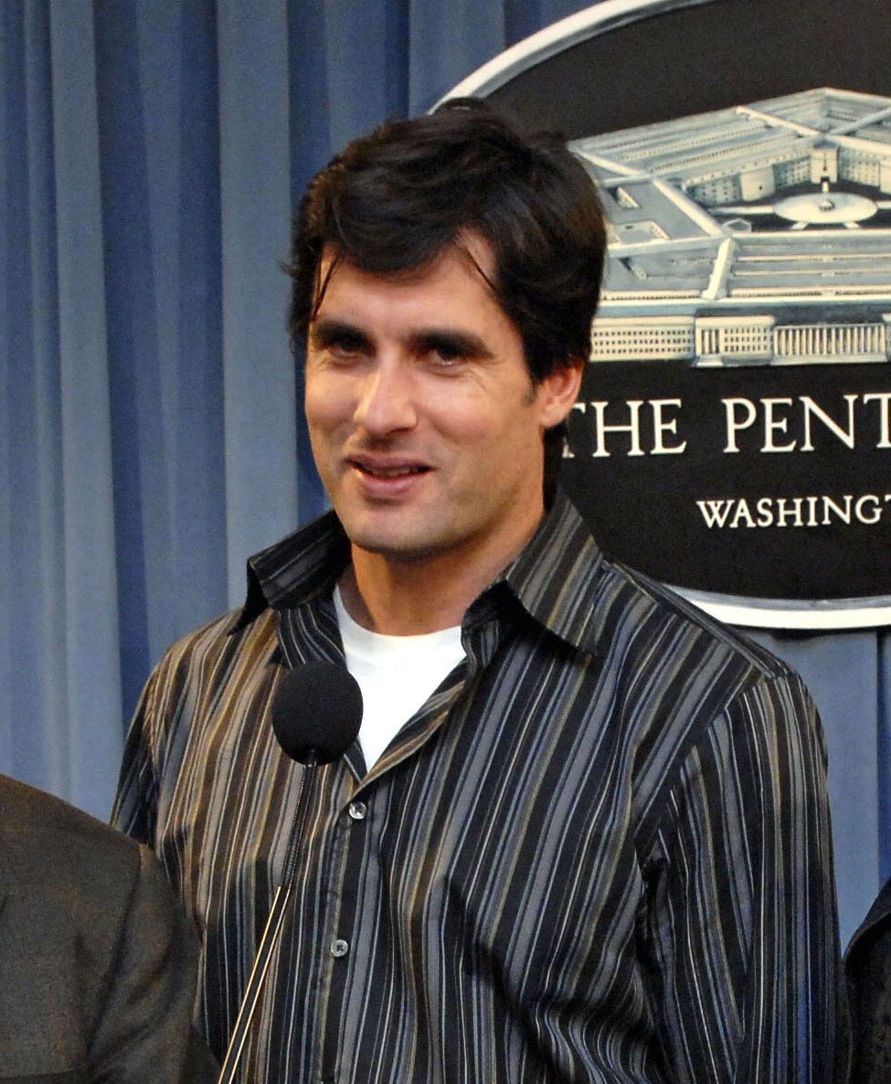 American actor John Newton during a tour of the Pentagon